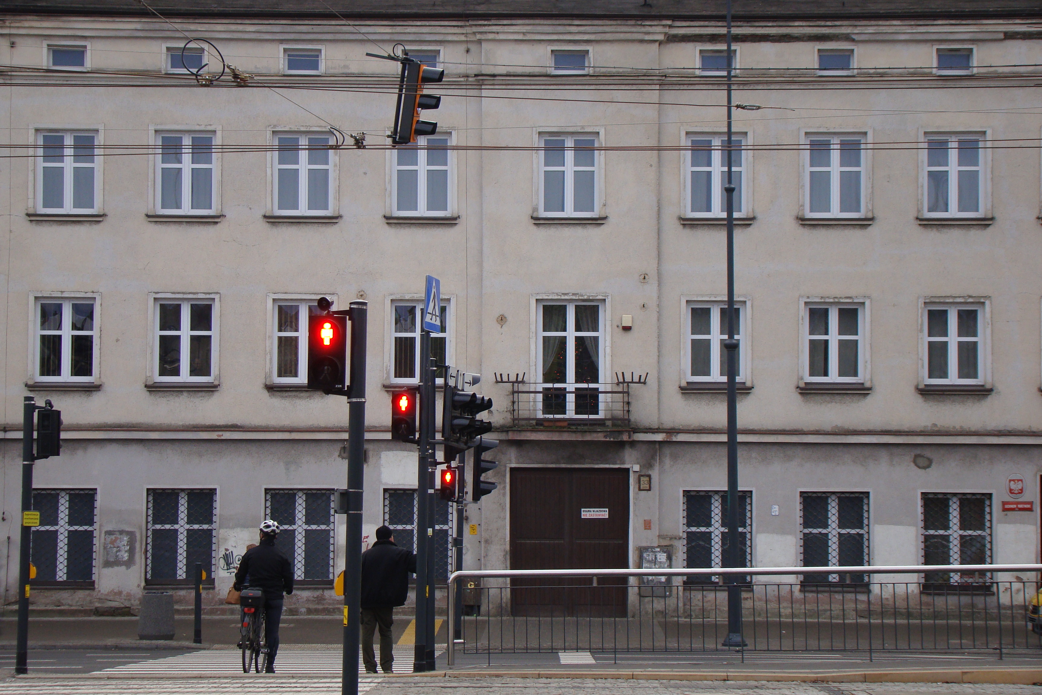 State Archive in Łódź